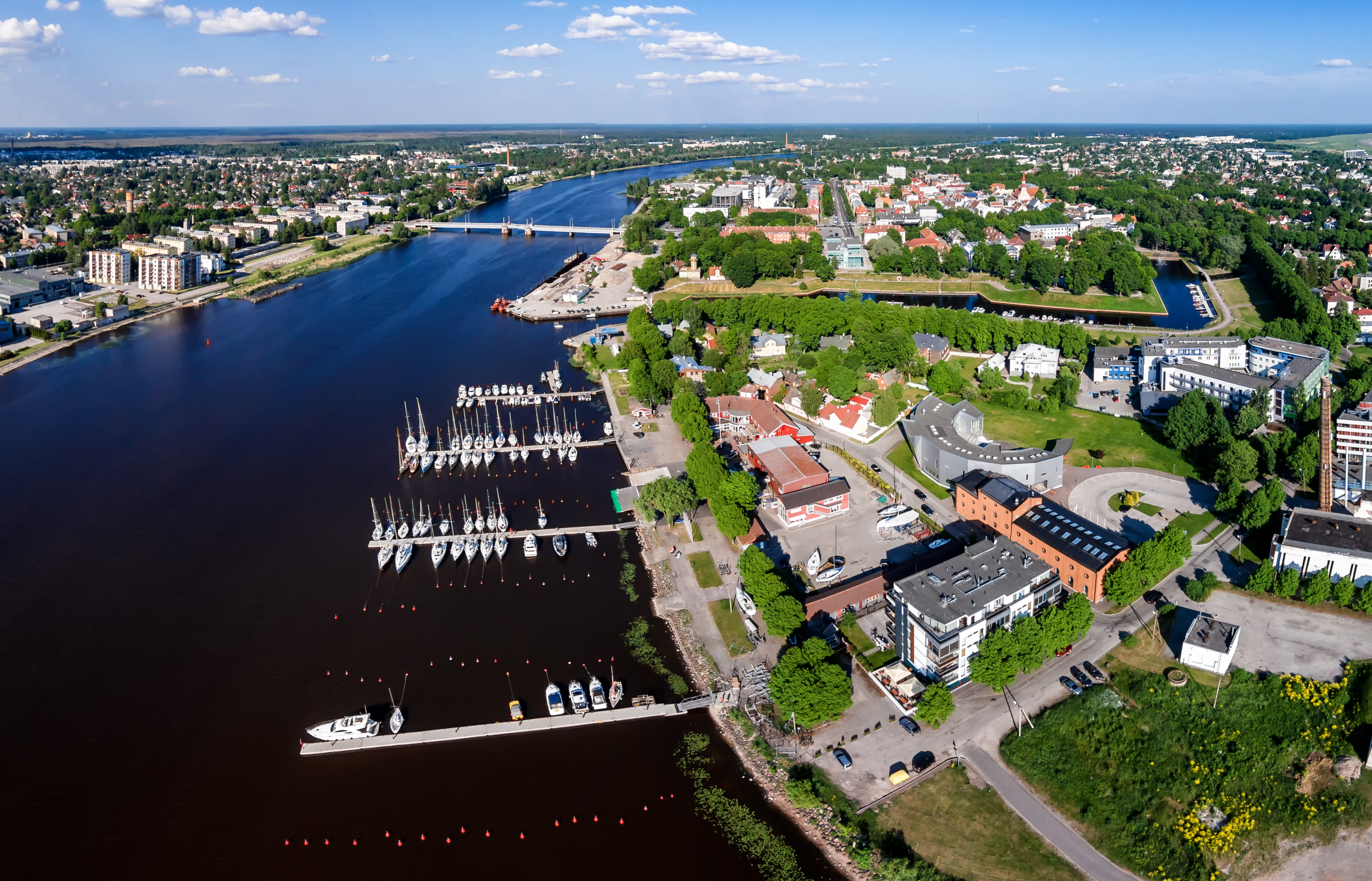 Aerial photo of Pärnu in Estonia